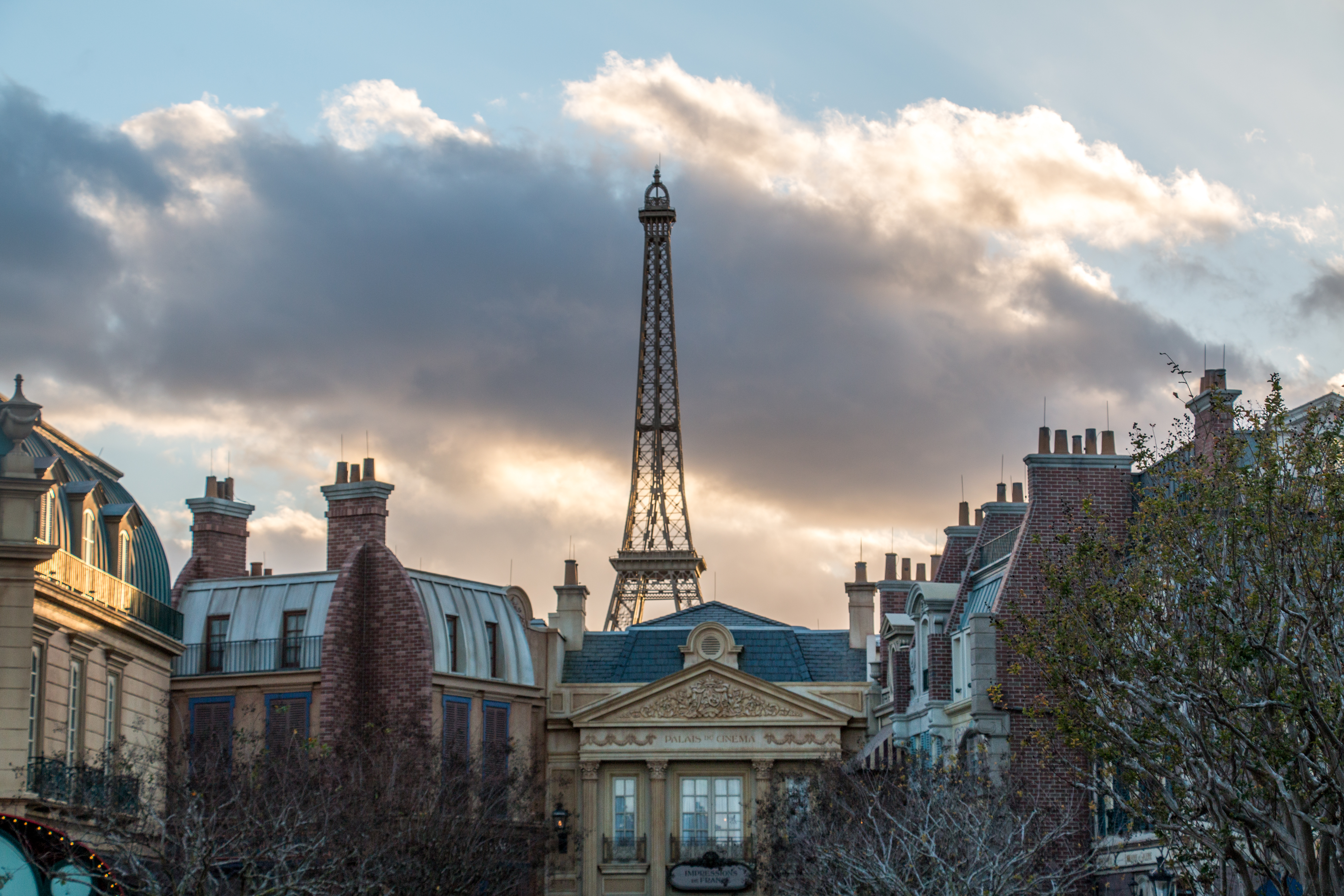 At the France Pavilion in World Showcase at Epcot.